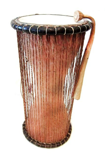 واحة من الآت الكيتا